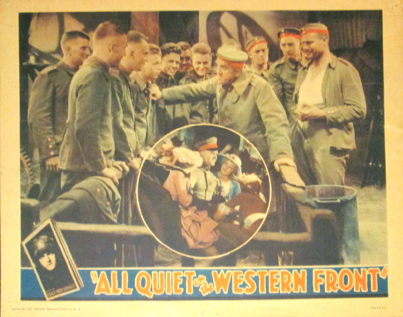 Lobby card for the American war film All Quiet on the Western Front (1930).